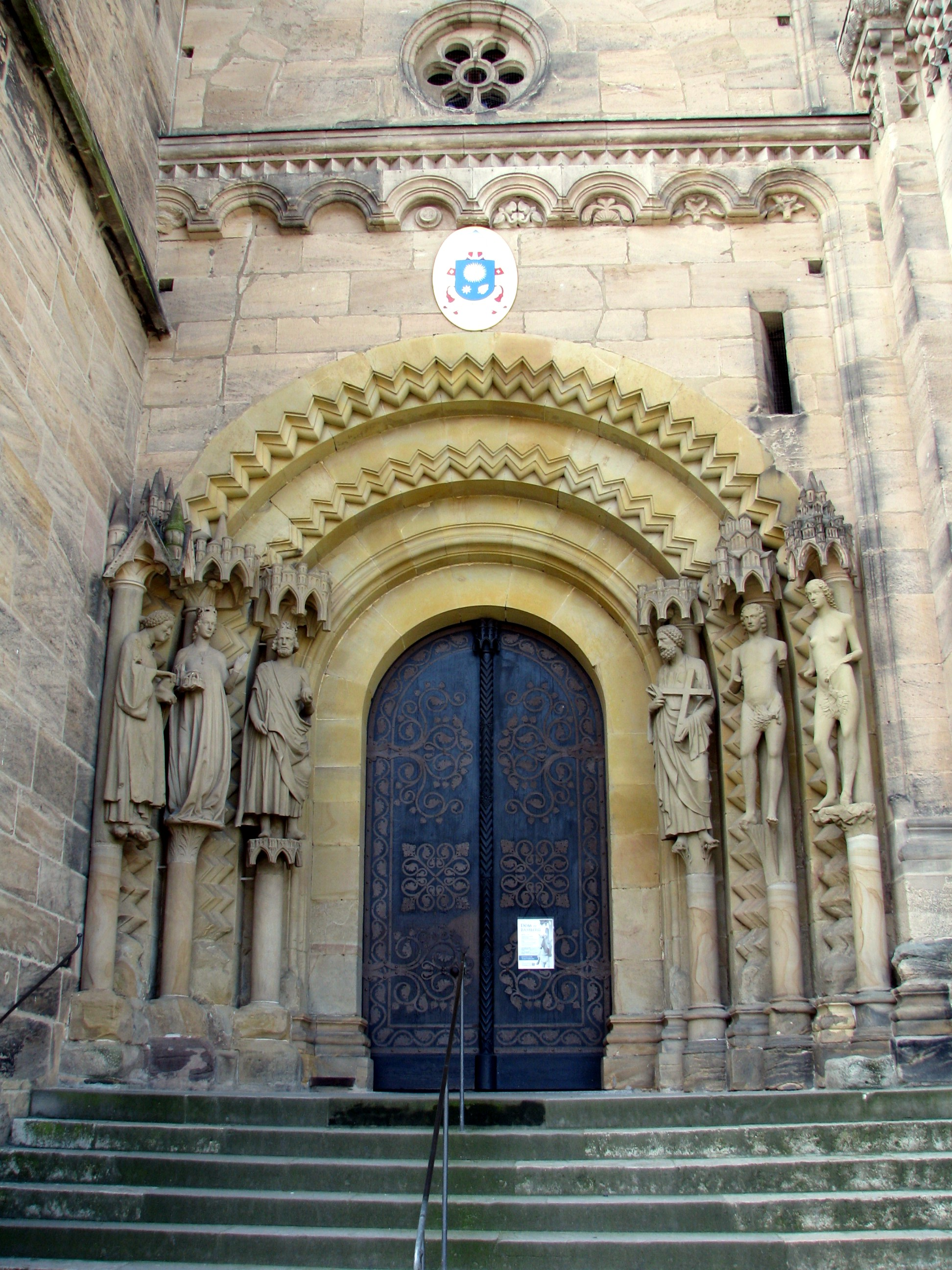 Bamberg Chatedral, Adam Portal